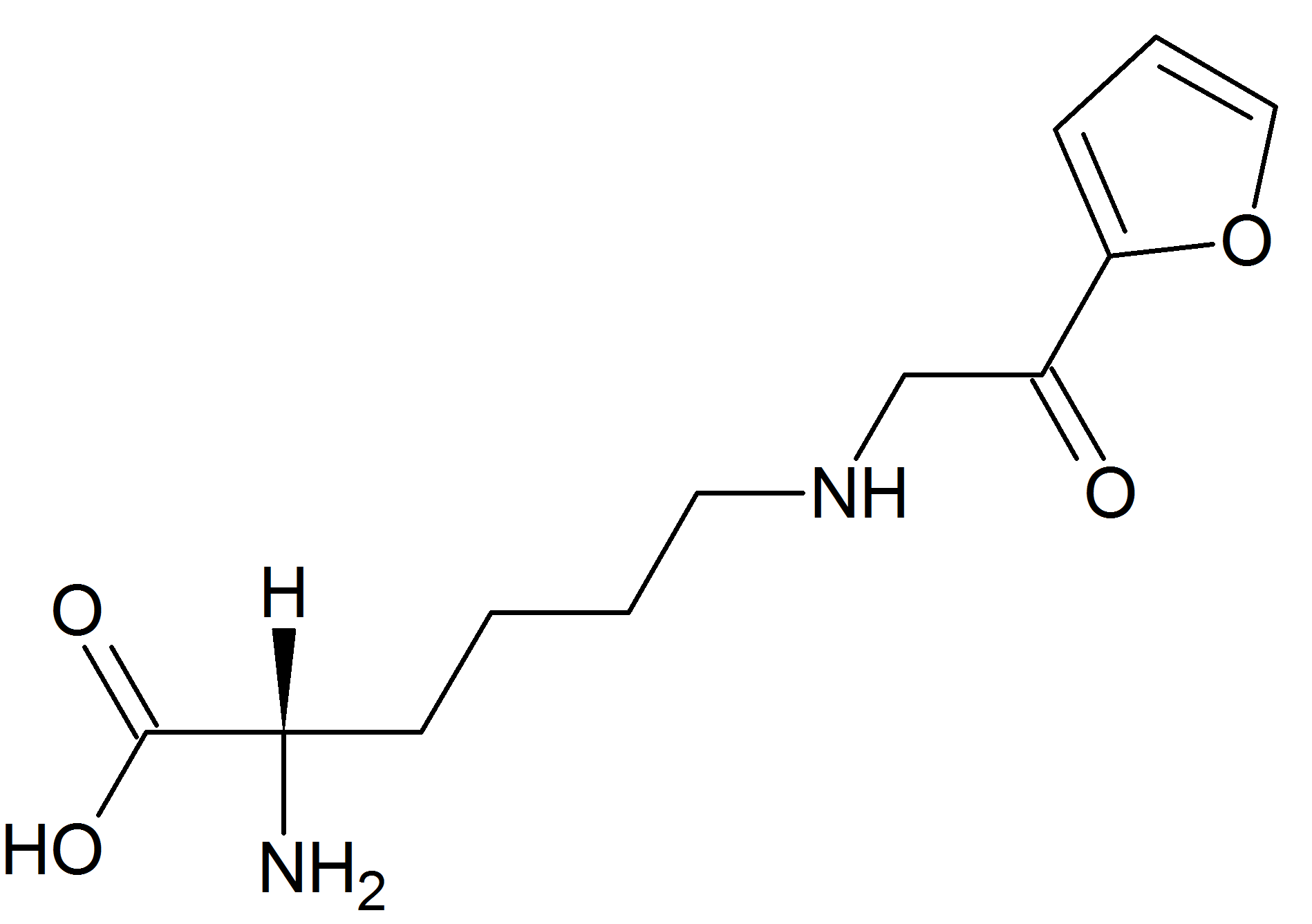 Furosine